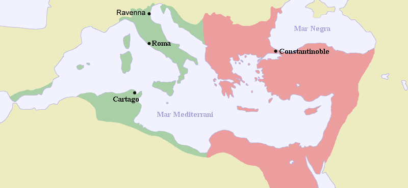 Map of Byzantine Empire ca 550. Green indicates the conquests during Justinianus I:s reign.